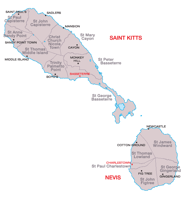 Map of Saint Kitty-Nevis, its districts and major cities.